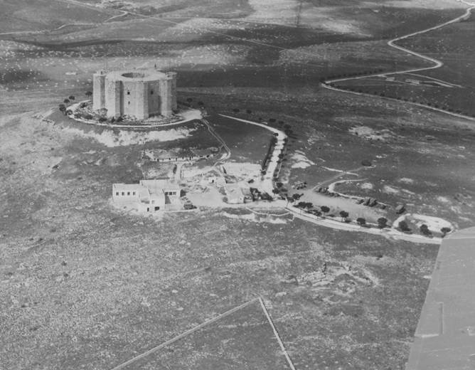 Castel Del Monte landmark while on VHF site selection reconnaissance.